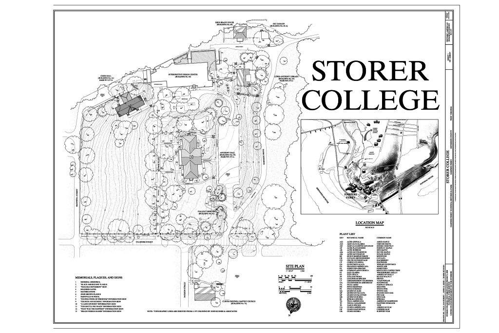 Map of Storer College Campus (1870's), Harpers Ferry, West Virginia